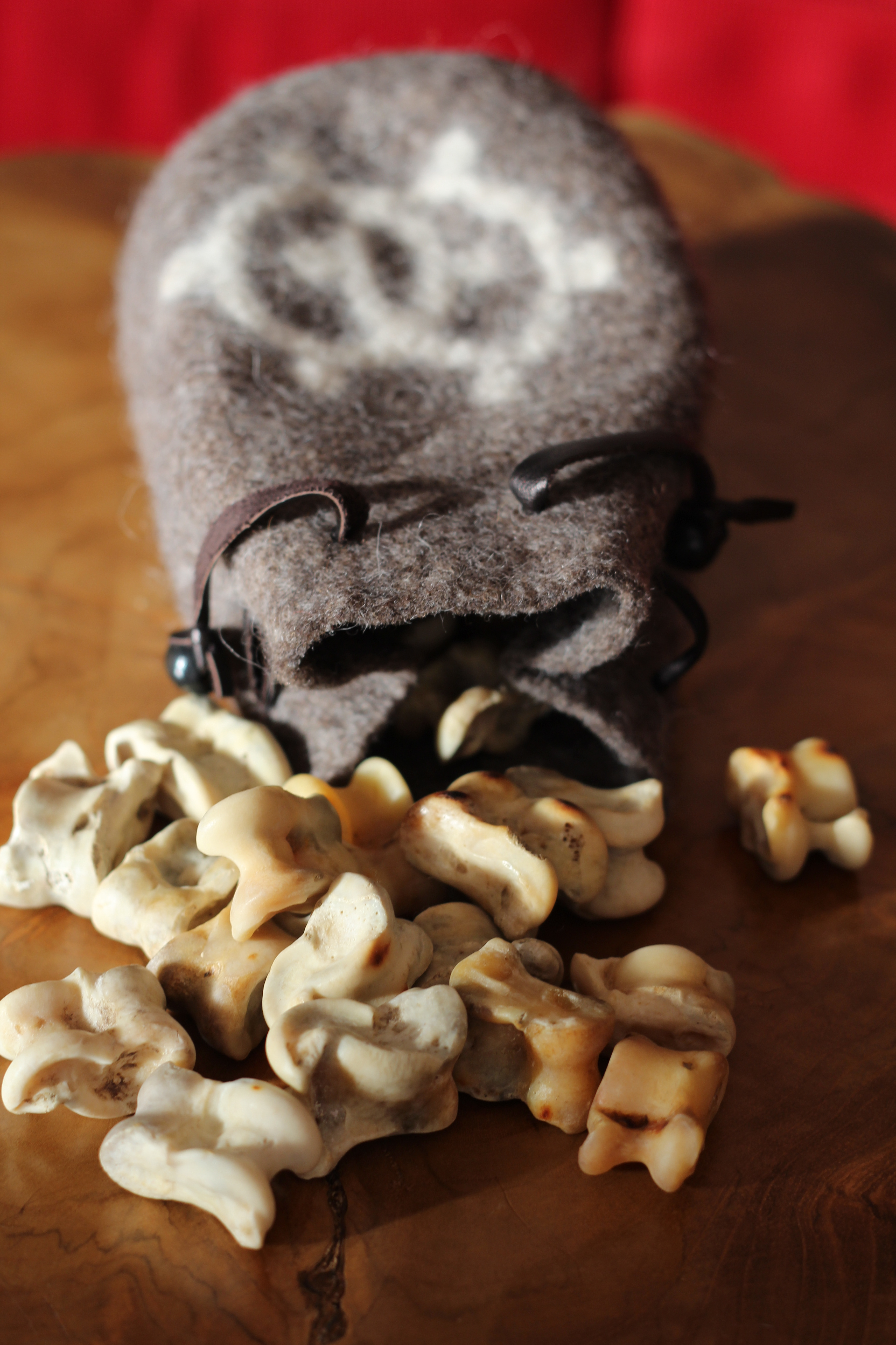 Pastern bones of an animal, for games like Knucklebones / Jacks